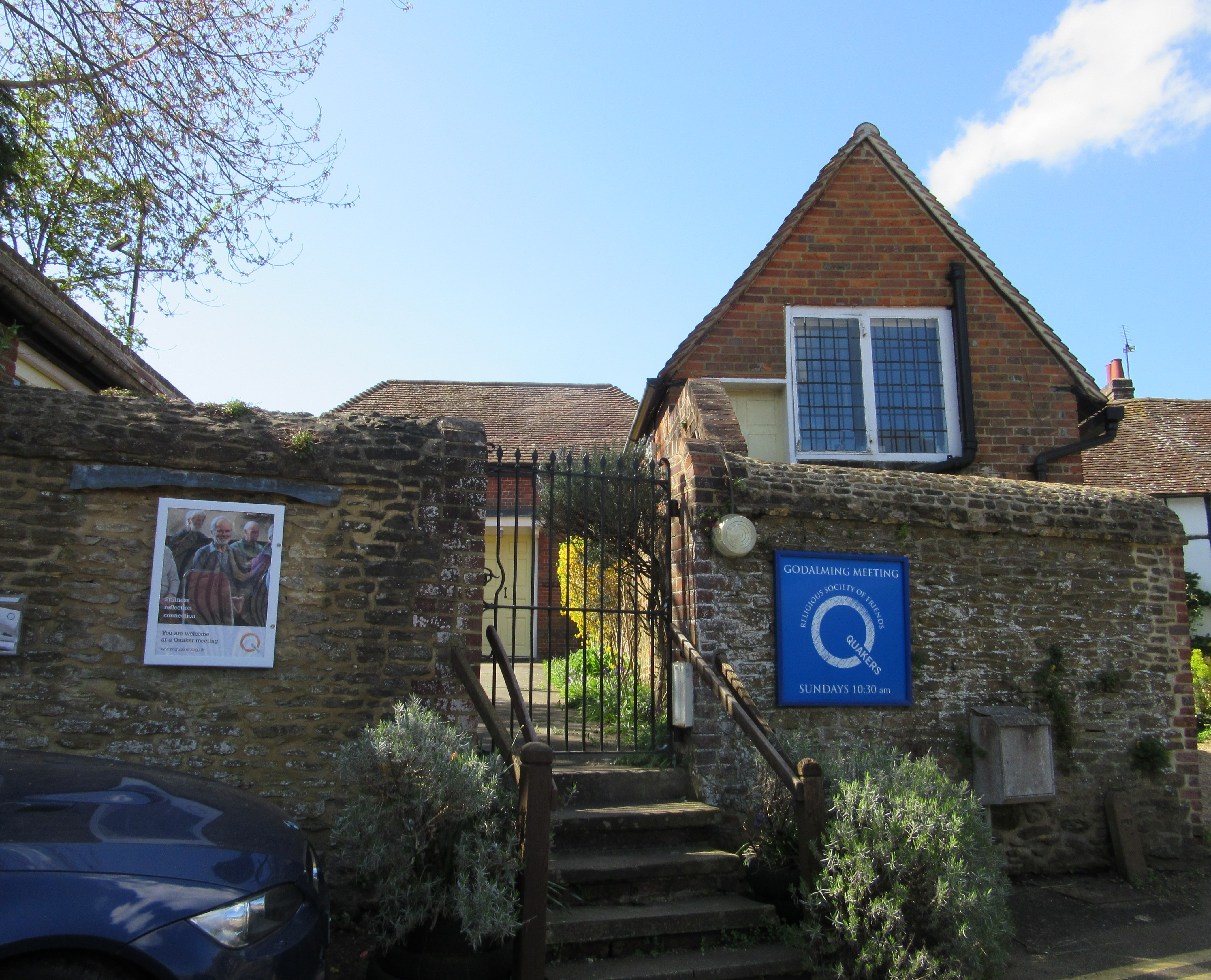 Friends Meeting House, Mill Lane, Godalming, Borough of Waverley, Surrey, England.